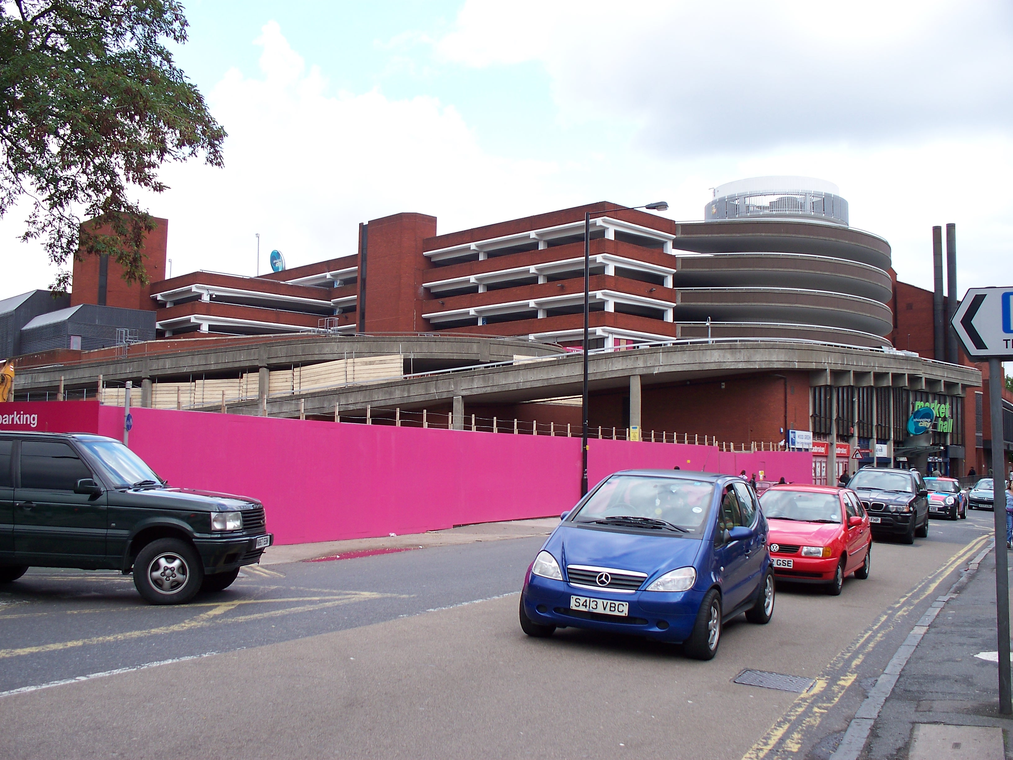 Construction work on extension to The Mall Wood Green, London